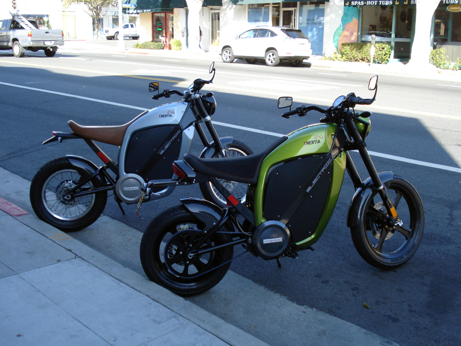 Brammo Enertia Prototypes on street in Santa Monica